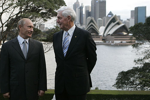 SYDNEY. With Australia\'s Governor General Michael Jeffrey.